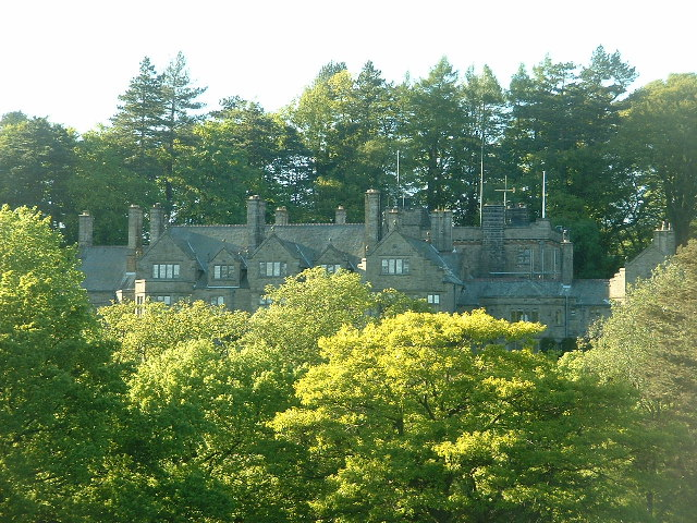 Abbeystead house, Lancashire.